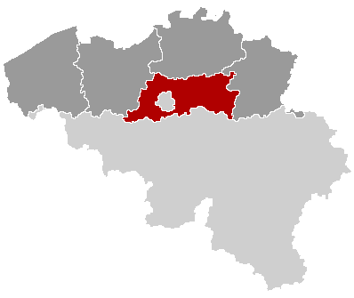 Map of Flemish Brabant